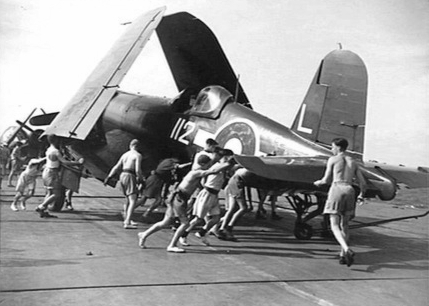 A Royal Navy Vought Corsair from 1831 Naval Air Squadron on deck of the aircraft carrier HMS Glory (R62) at sea off Rabaul, New Britain, 6 September 1945. The Corsairs circled overhead during the surrender ceremony between Lieutenant General V.A.H. Sturdee, general officer commanding First Army, General H. Imamura, commander Japanese Eighth Area Army, and Vice Admiral J. Kusaka, commander Japanese South East Area Fleet.